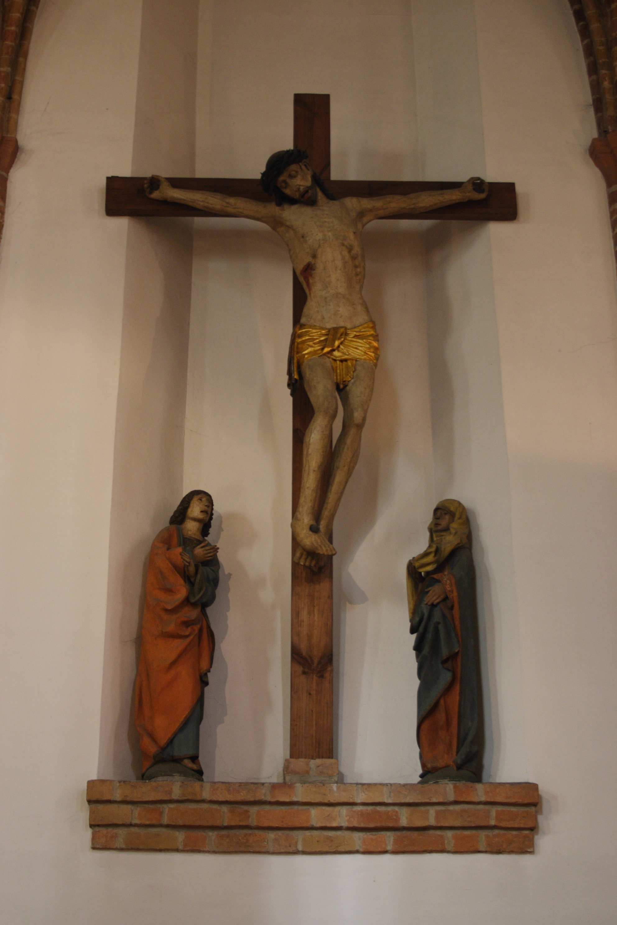 Gothic crucifixion group of St. Nicholas in Berlin-Spandau